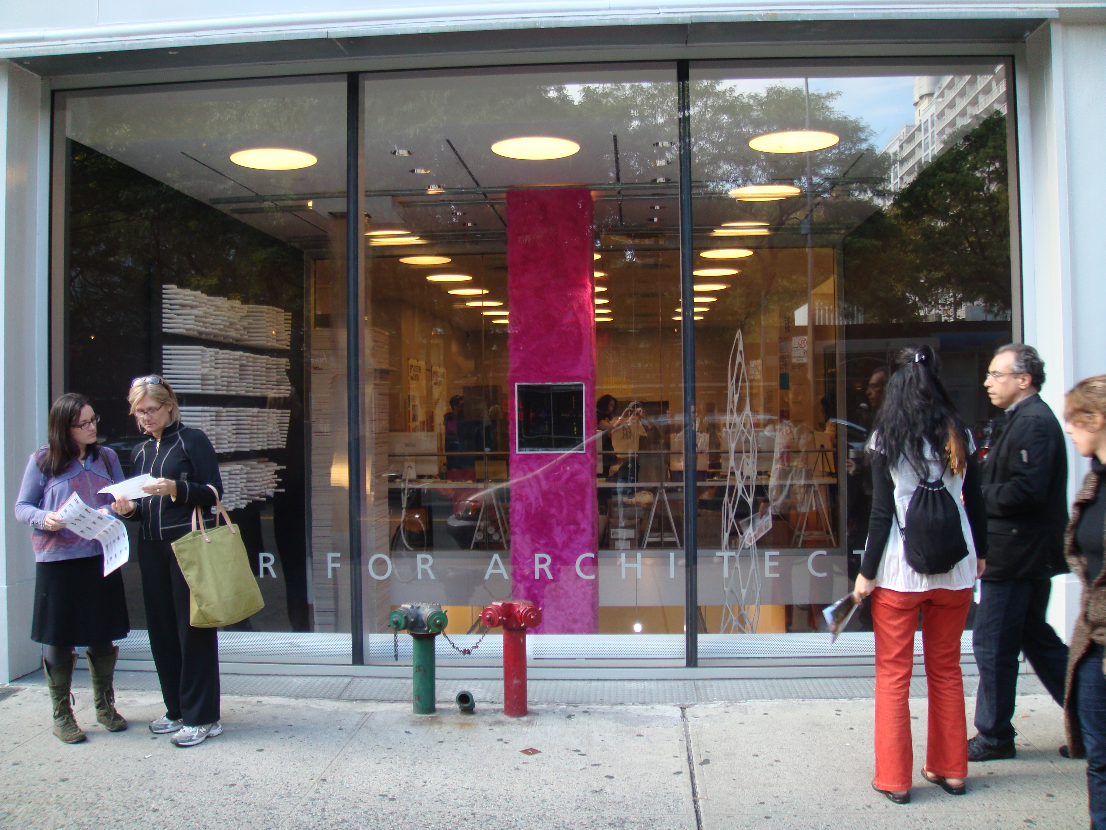 This photo is of Wikis Take Manhattan goal code F36, Center for Architecture.